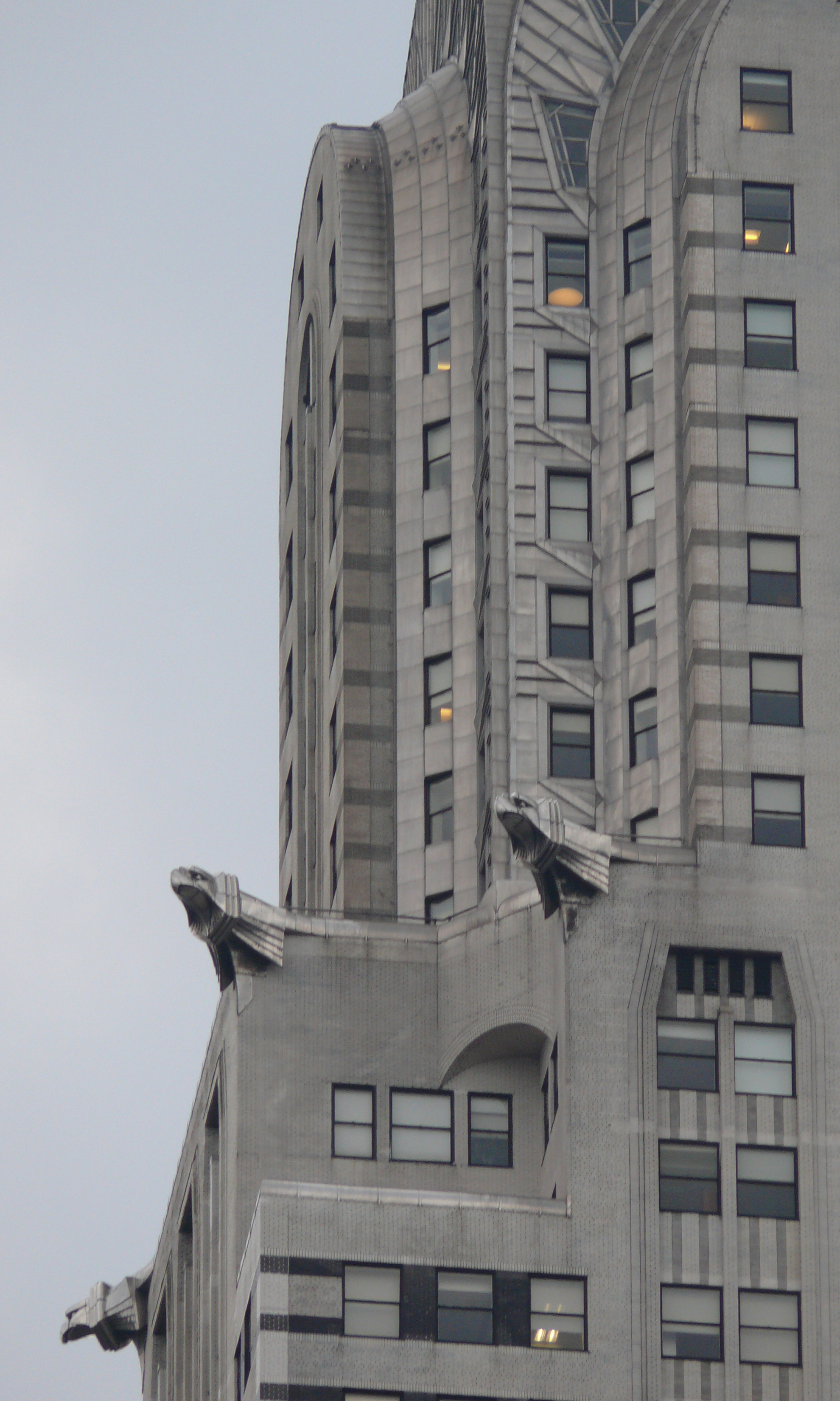 The Chrysler Building is an Art Deco skyscraper in New York City, located on the east side of Manhattan in the Turtle Bay area at the intersection of 42nd Street and Lexington Avenue.